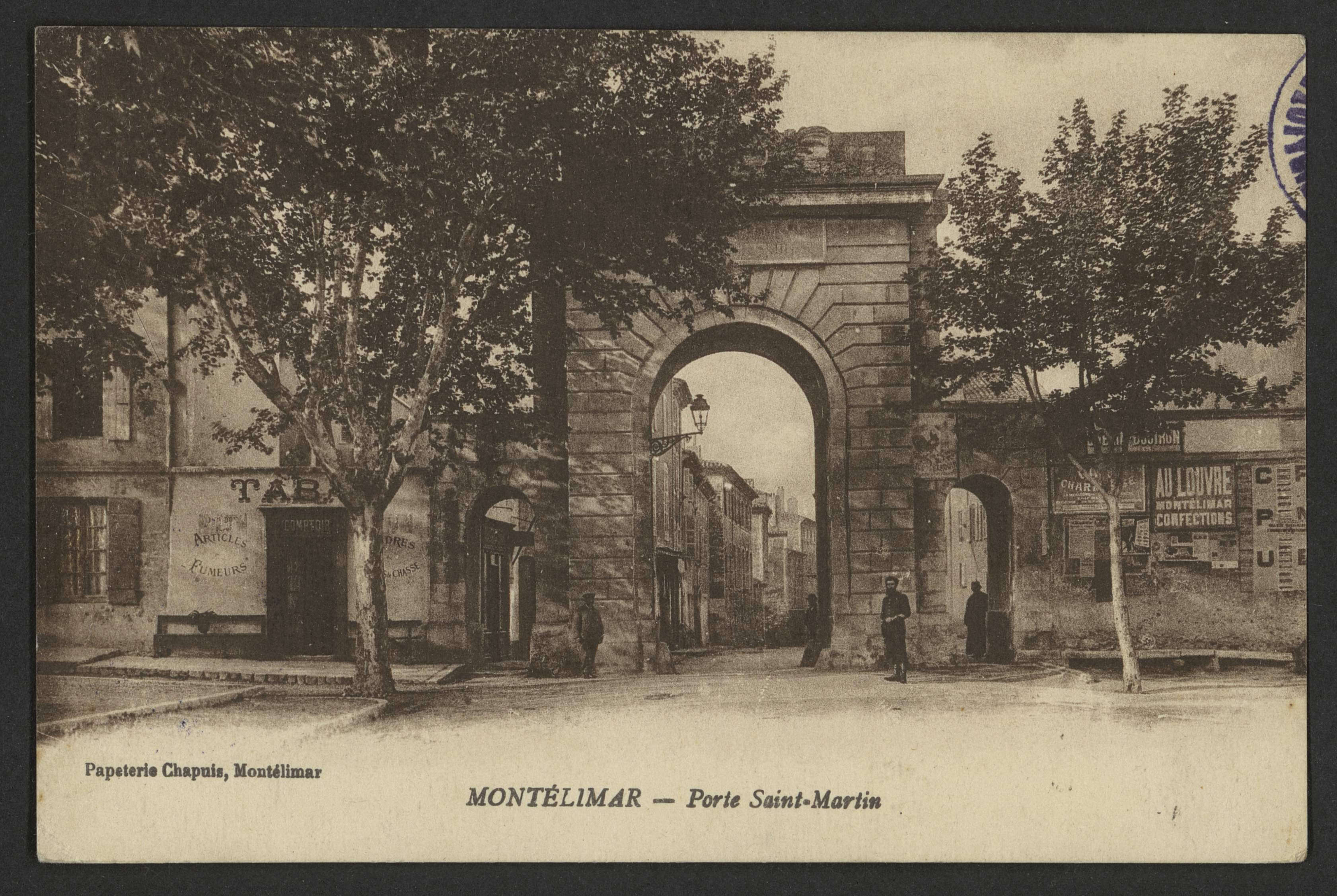 Montélimar